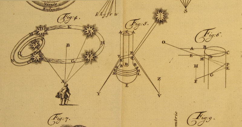 The parhelic circle and other halos by Petrus van Musschenbroek after Christiaan Huygens. According to this model, halos were to form in hollow ice cylinders with an opaque nucleus. Musschenbroeks treatise on physics contains a large chapter on meteorological phenomena and was published in many editions and several languages.